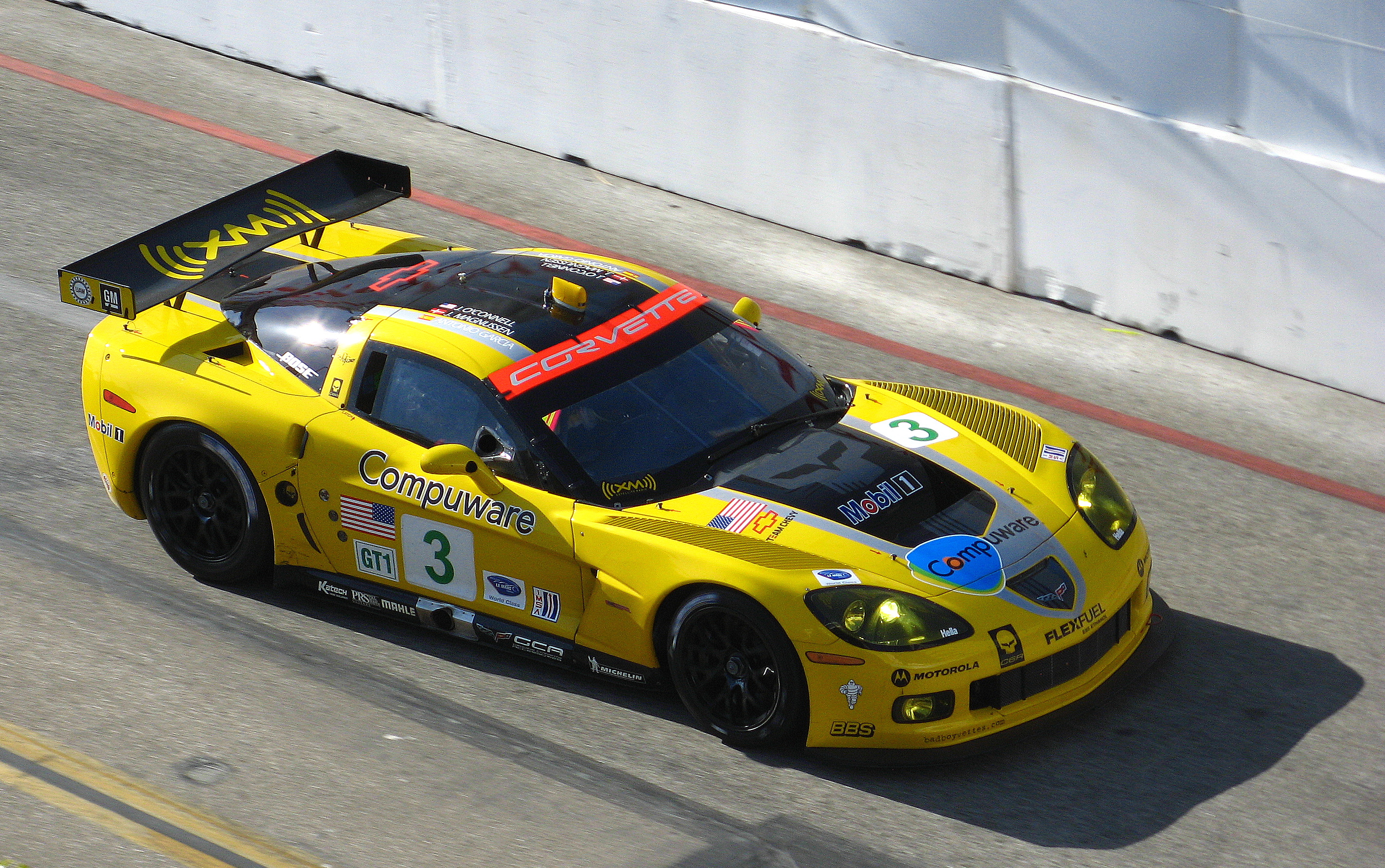 A Corvette C6-R enters the back straight during Friday Practice for the American Le Mans Series at the 2009 Long Beach Gran Prix, in the team's last outing in the GT1 category.